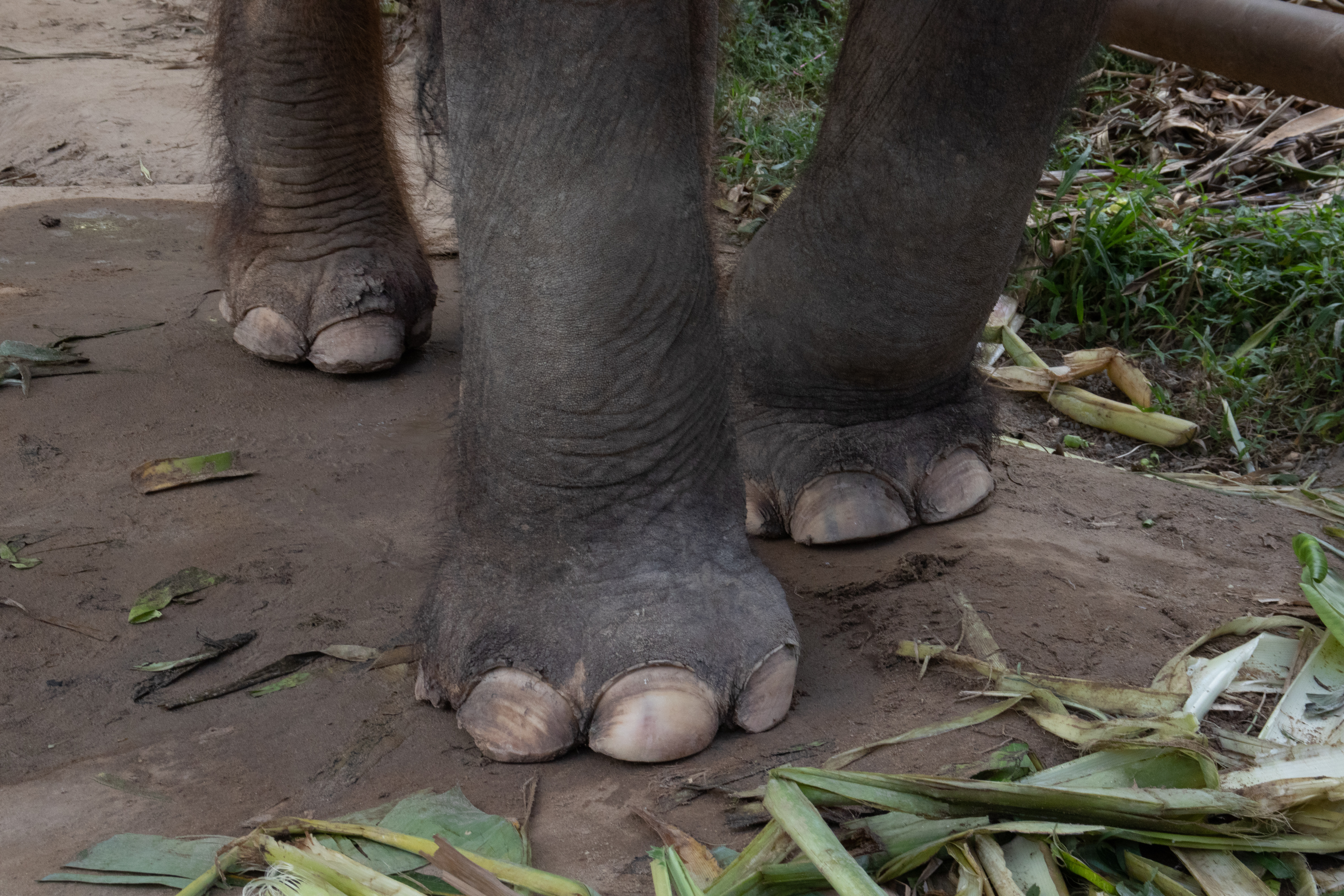 The feet and toes of an Asian elephant at the Phuket Elephant Sanctuary in Thailand